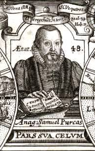 This is a portrati of Samueal Purchas at the age of 48 derived from a page already on WM. "Purchas His Pilgrimes," title page of the work by the British travel writer Samuel Purchas, printed by William Stansby at London, 1625. Courtesy of the Monroe Wakeman and Holman Loan Collection of the Pequot Library Association, on deposit in the Beinecke Rare Book and Manuscript Library, Yale University, New Haven, Connecticut.